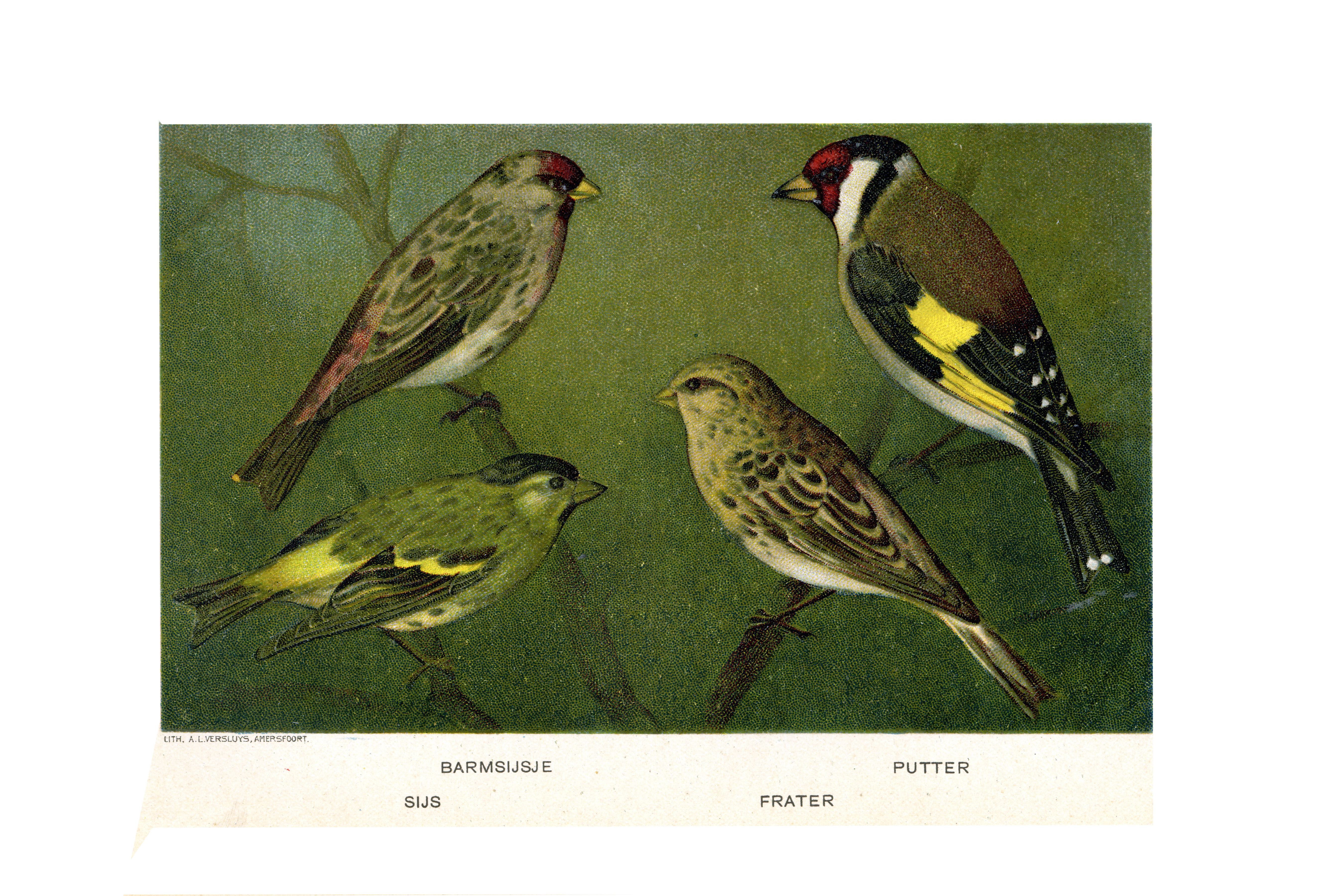 Eurasian siskin, Common redpoll, Twite, European goldfinch, all family of Finch/Fringillidae